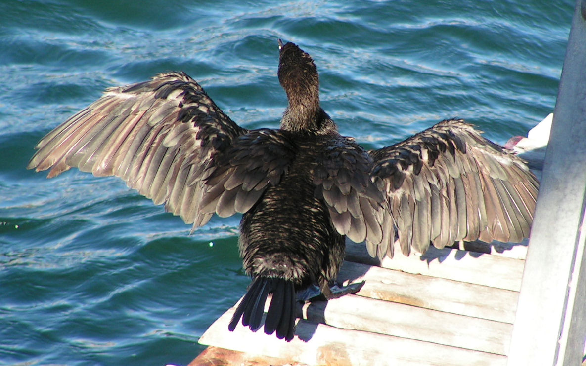 Cape Cormorant (Phalacrocorax capensis), Cape Town, South Africa